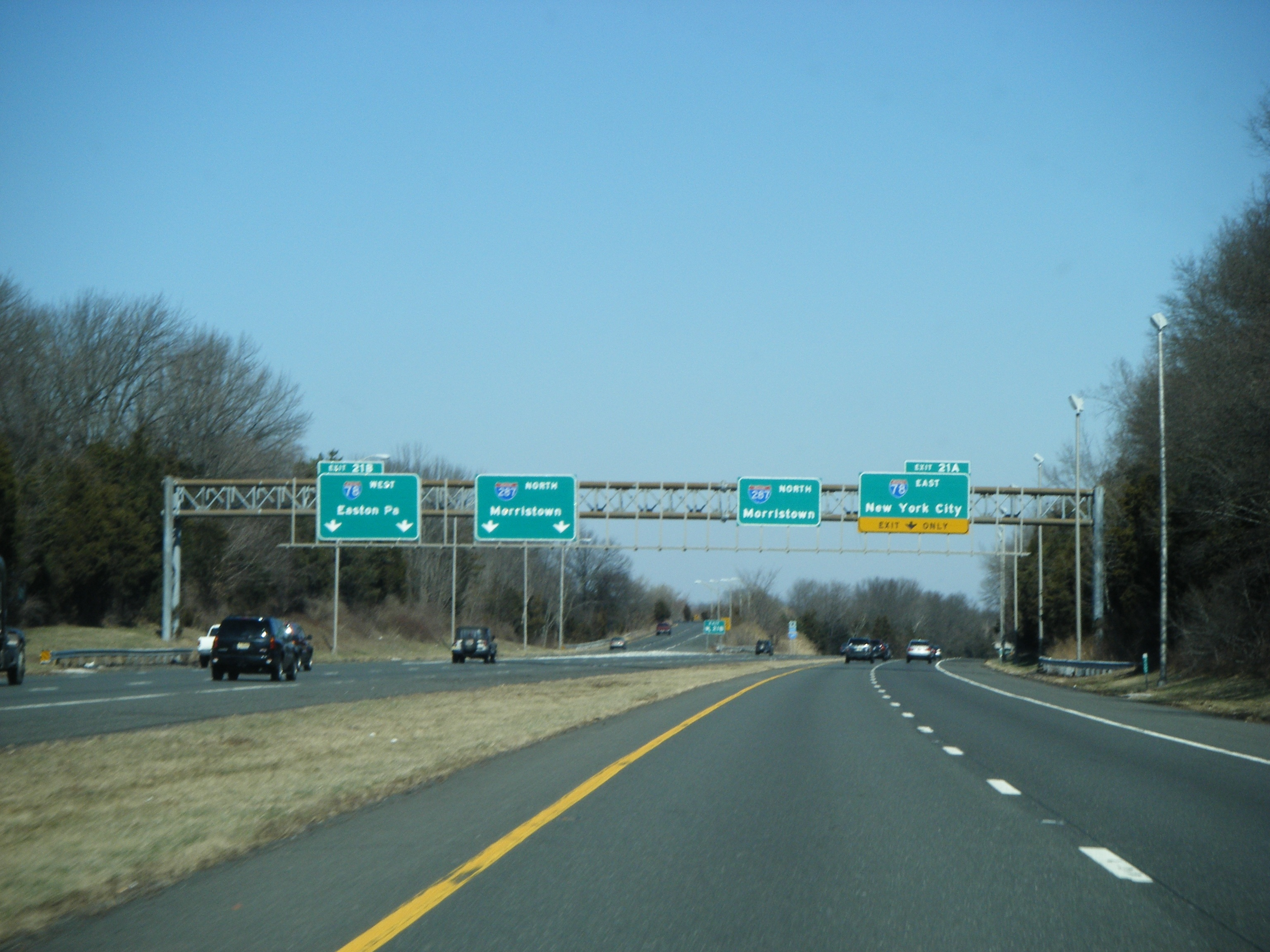 Northbound Interstate 287 at the interchange with Interstate 78 (exit 21) in Bedminster, New Jersey